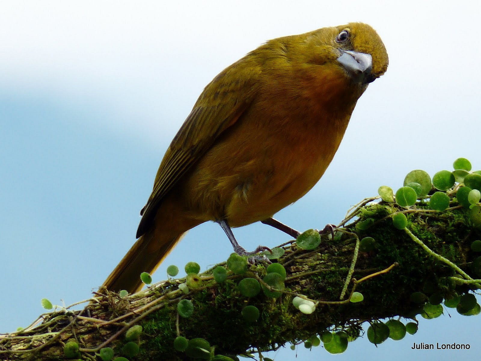 Tooth-billed Tanager (Piranga lutea), female. Taken at Aralcal, "The Coffee Forest", Manizales, Colombia. More photos of this species at: Tanagers (Piranga sp) and at: SELECTED BIRDS